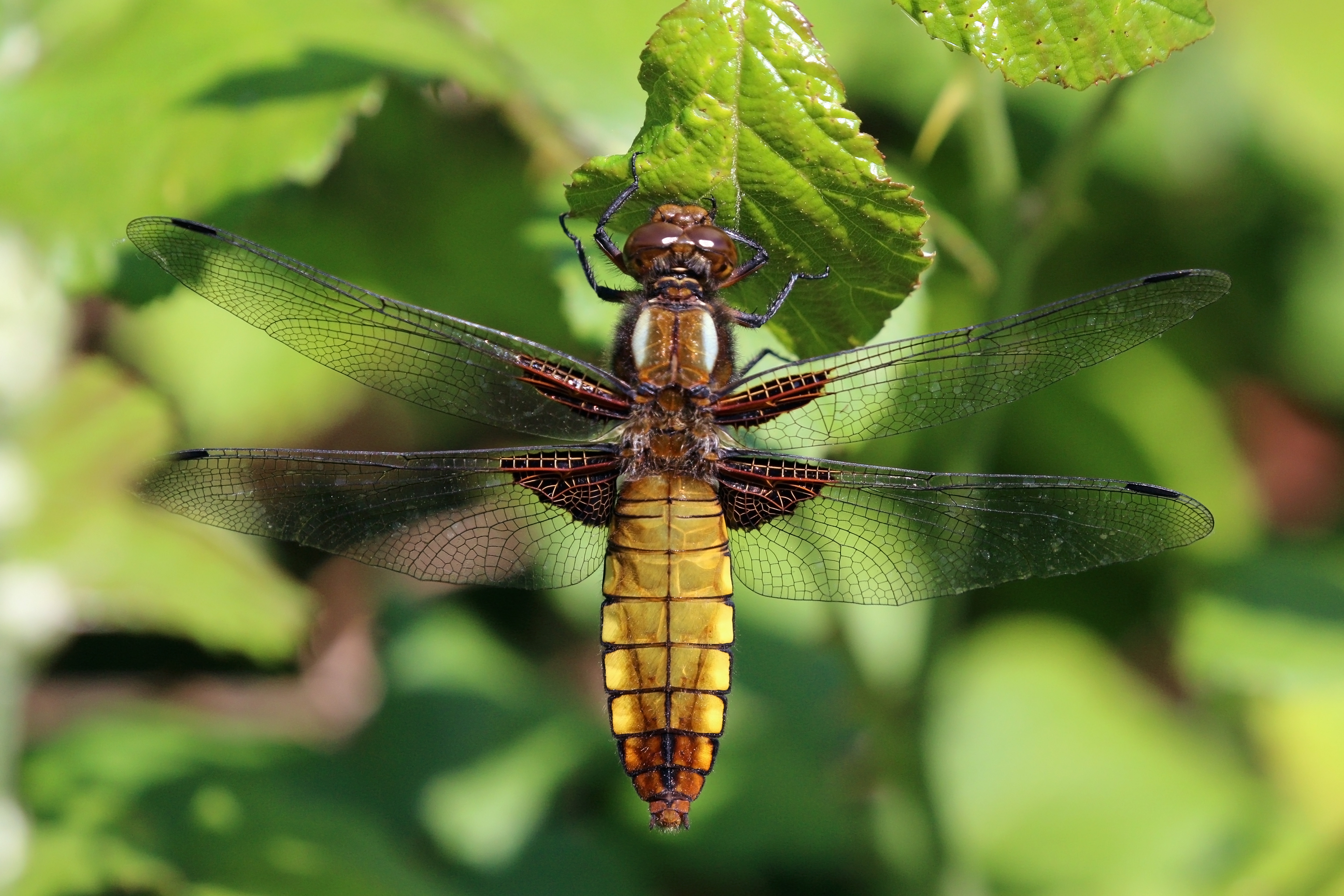 Broad-bodied chaser (Libellula depressa) female, Otmoor, Oxfordshire